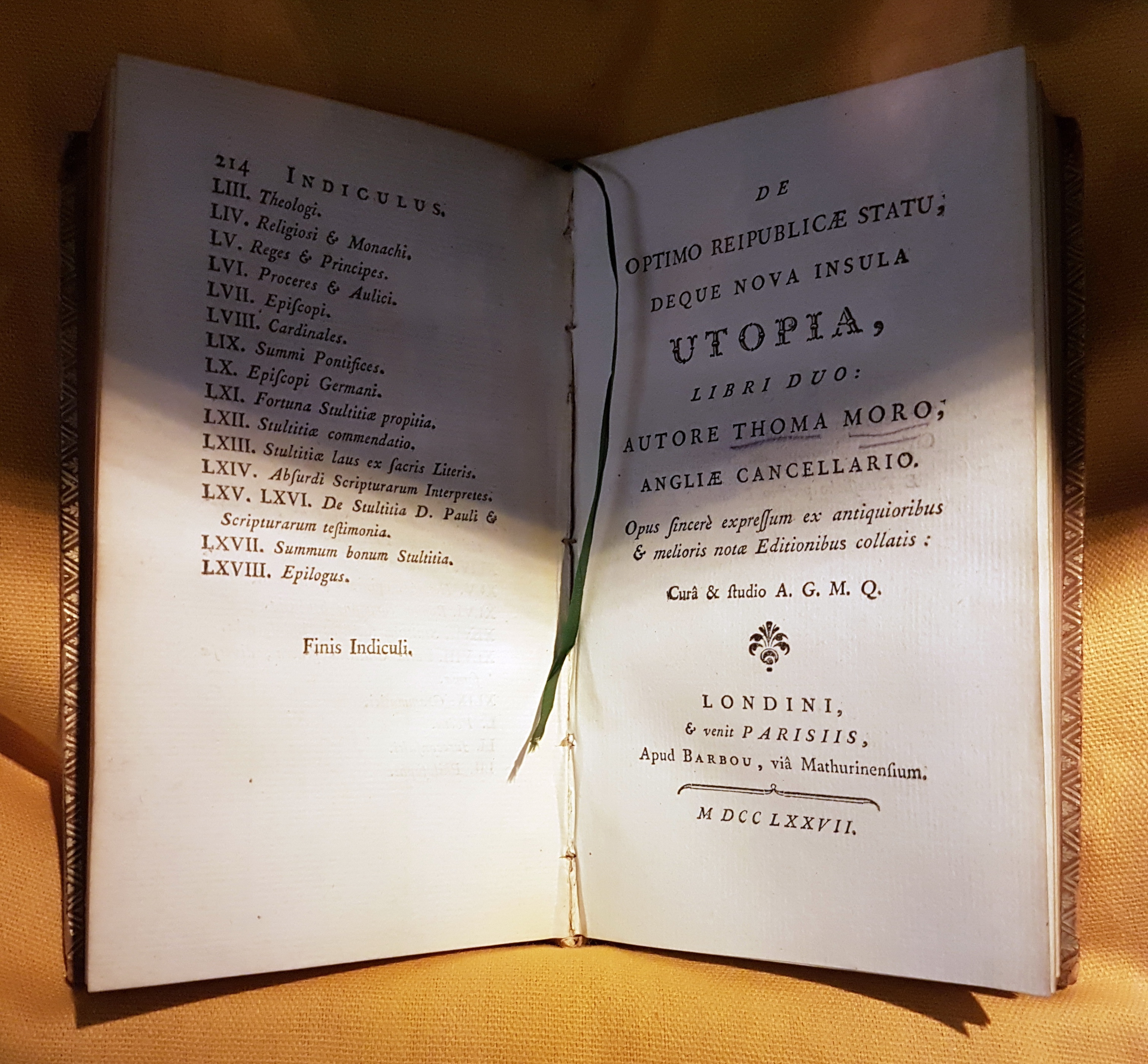 A 1777 edition of Thomas More's Utopia (1516) in the collection of Centre Céramique, Maastricht, Netherlands. This edition, printed by Barbou in London & Paris, seems to be a reprint of the 1518 edition in Latin, which was illustrated by Ambrosius Holbein.